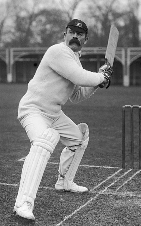 Joseph Darling, South Australia and Australia, circa 1905.